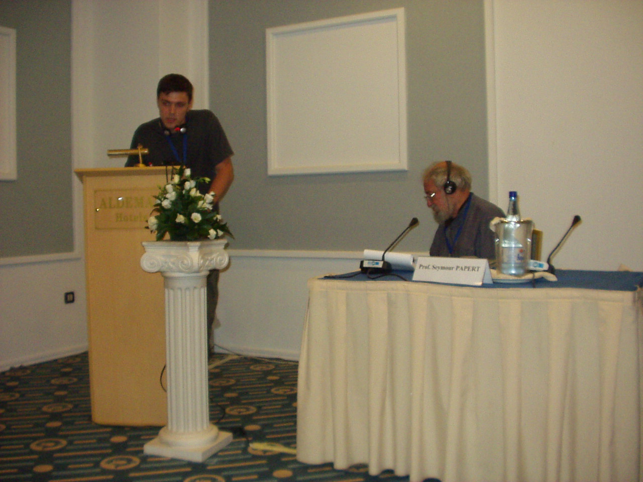 Vice chief editor of Webplanet news site Yury Sinodov reports to Seymour Papert and the audience at Dialogue of Civilizations forum at Rhodes island, Greece